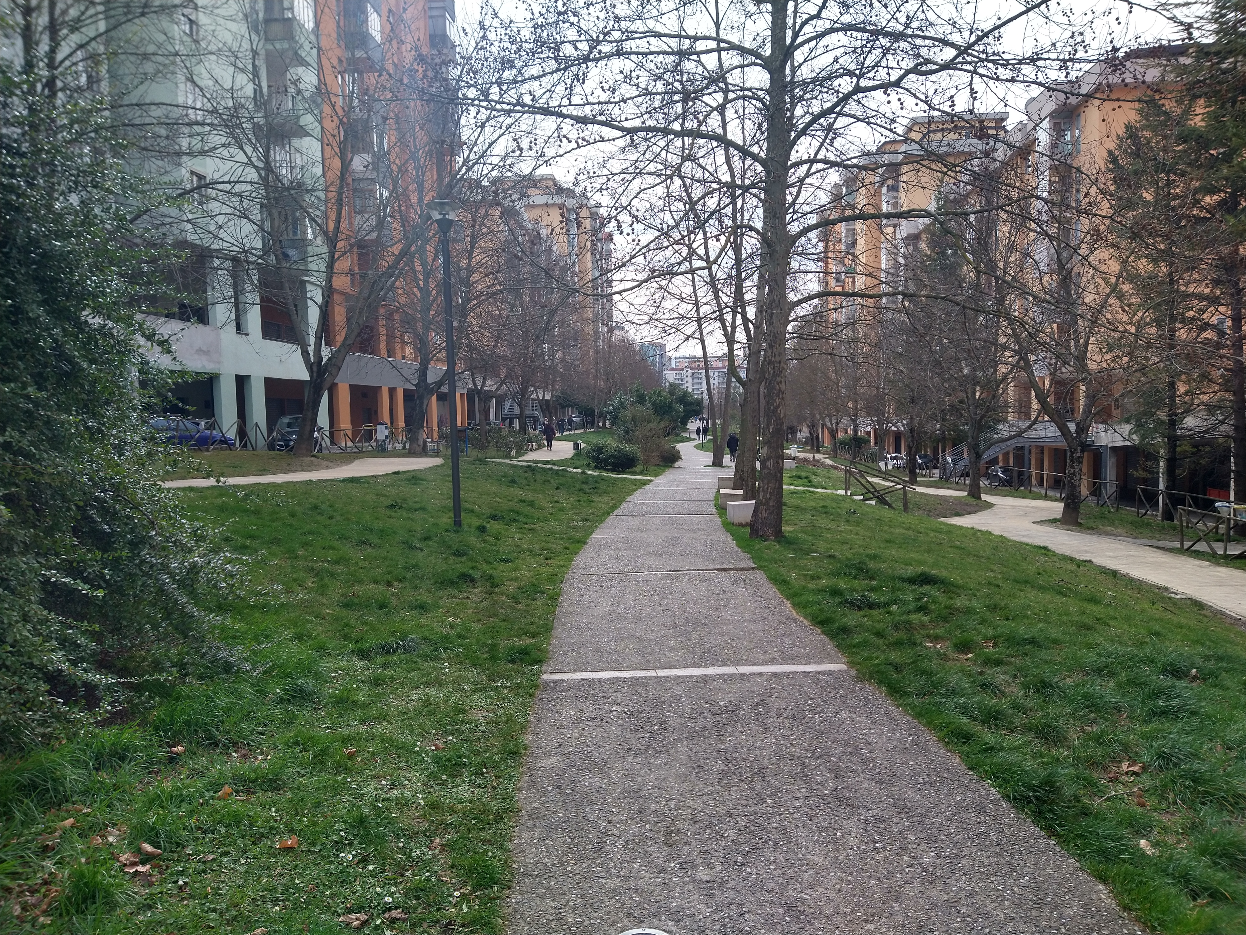 View of United Europe Park, Potenza, Italy